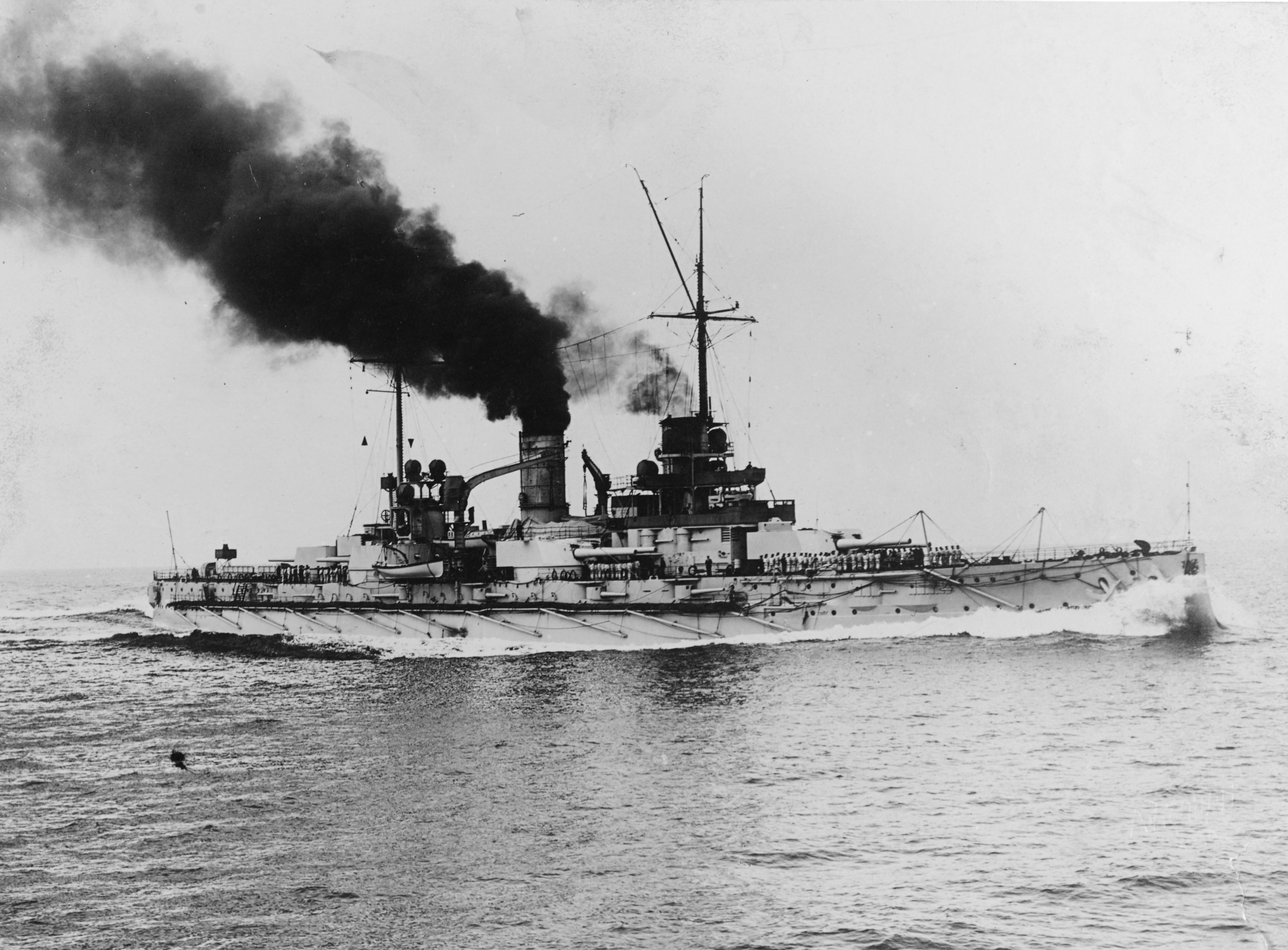 NASSAU (German battleship, 1908-1920) Caption: Photographed very early in her career.